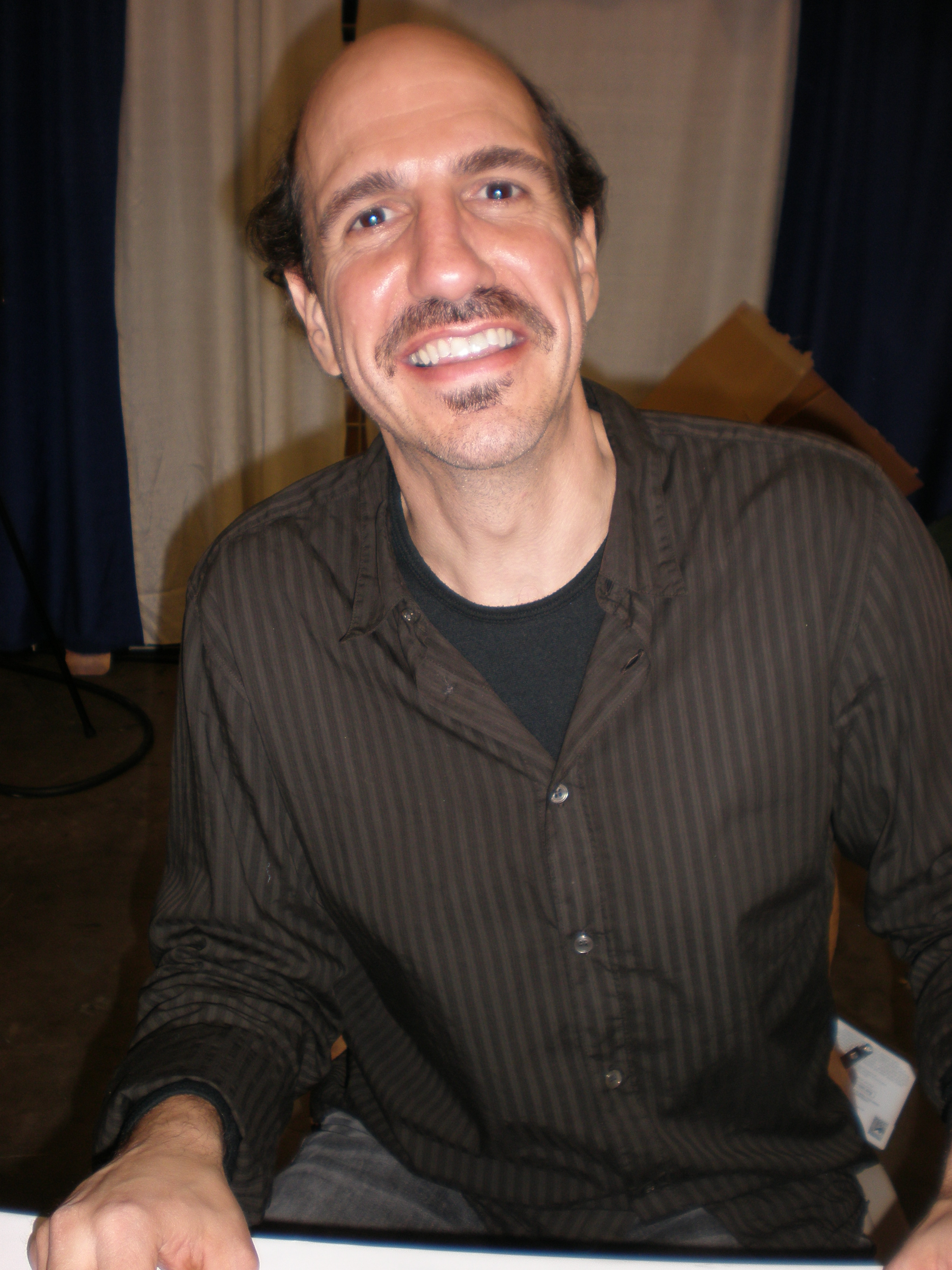 Sam Lloyd at a promotional signing for Super Capers at WonderCon 2009.